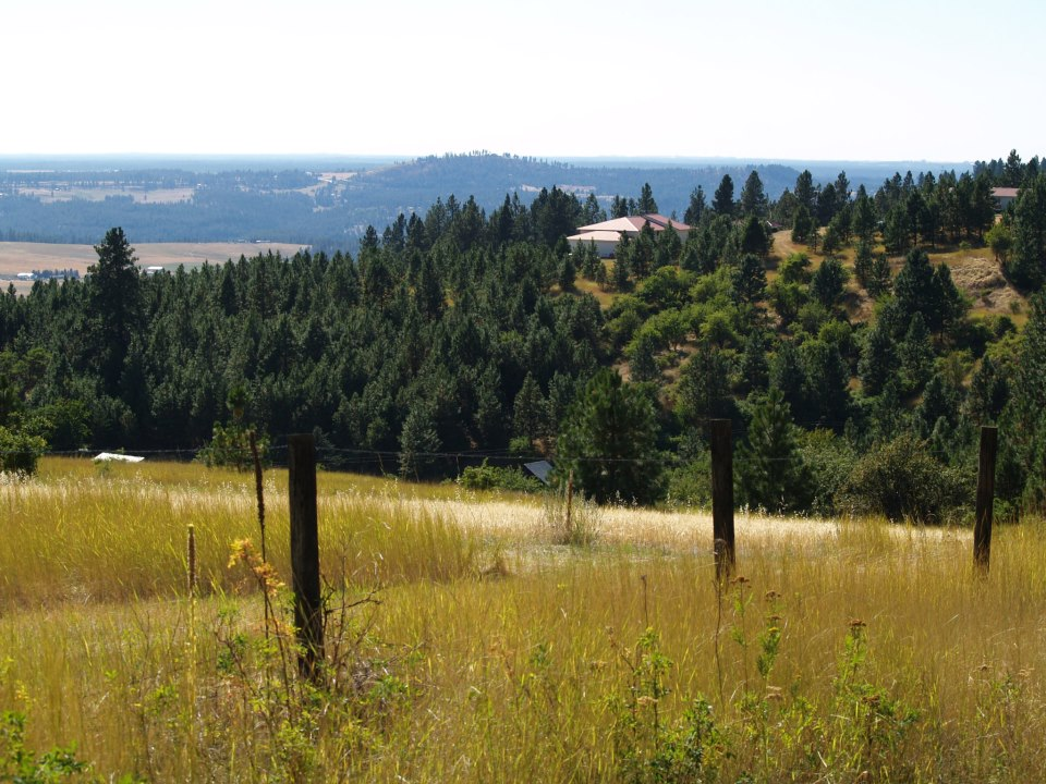 Taken about mid way up the south face of Krell Hill. The view is to the SW. Stevens Creek Rd. runs through the valley in the foreground. Latah Valley and the Columbia Plateu lie in the background.